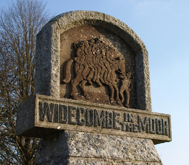 Village sign, Widecombe-in-the-Moor The obligatory image of Widecombe for the tripper, on the green by the church. Tim Sandles provides an excellent analysis of the famous song at , from which the following is taken: "the noted folklorist Theo Brown ... contended that the concept of a spectral grey/white horse came from mainland Europe. It is suggested that the motif of the song was brought over to Dartmoor by German tinners who came across to work in the mines during the Elizabethan period. Some of these miners came from the Harz mountain region where there (along with many other European regions) was a tradition of der Schimmelreiter or the rider on a grey/white horse, the idea being that the grey horse was a guide to the Otherworld which would lead the souls of the departed into the venerated realms of the dead. Therefore in the contexts of Tom Pearce's grey mare, the reason he "sat down on a stone, and he cried" was because he realised that the grey horse's death meant all future spirits were condemned to oblivion as they would have no spirit guide to take them to the Otherworld. The whole concept of the belief was that the grey mare represented an entity which hovered between life and death and acted as a "boundary figure" without which no human soul can be led into the life-after."